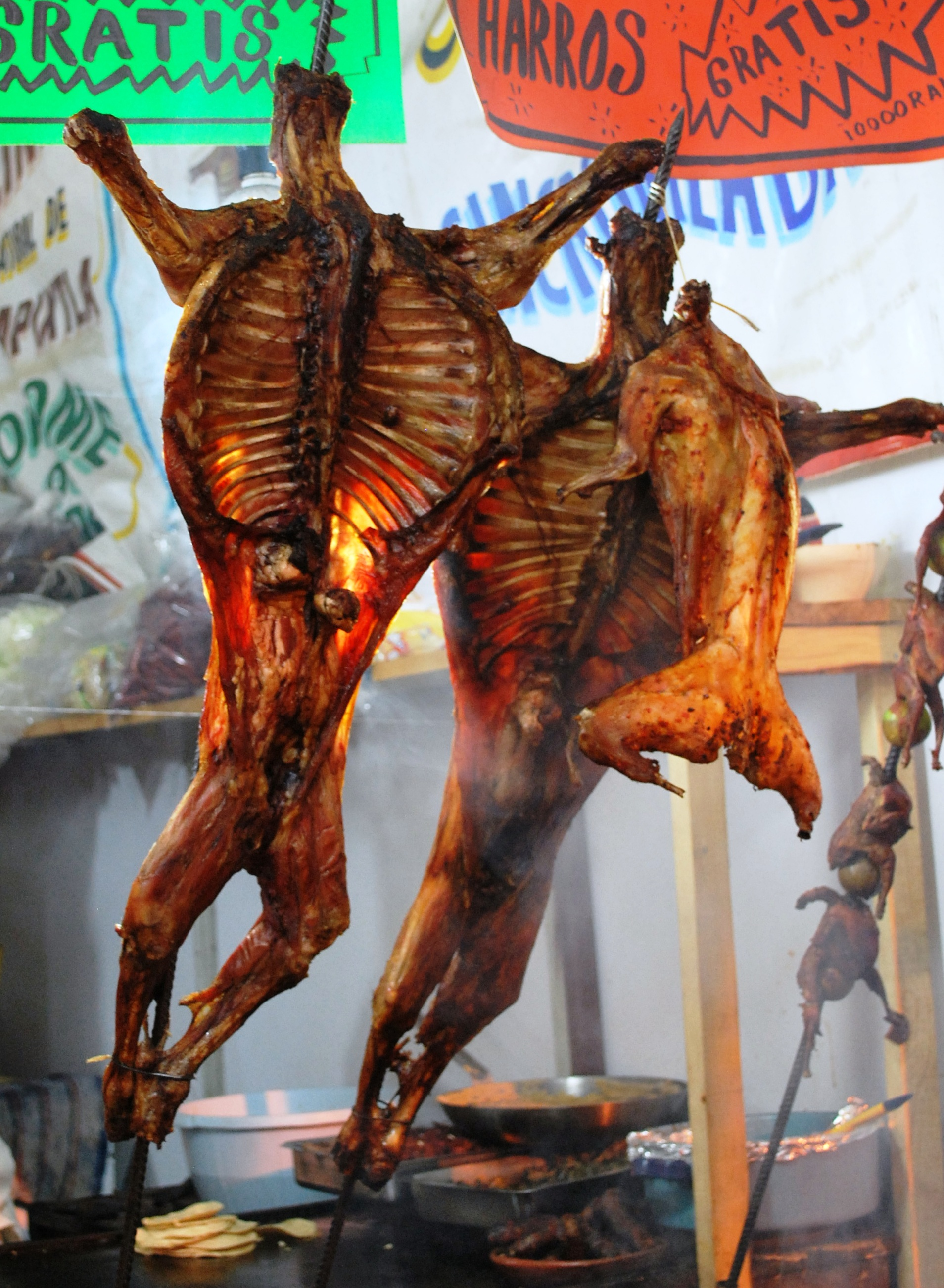 Cabrito (kid goat) on a spit at the Feria de Hidalgo in Pachuca, Hidalgo